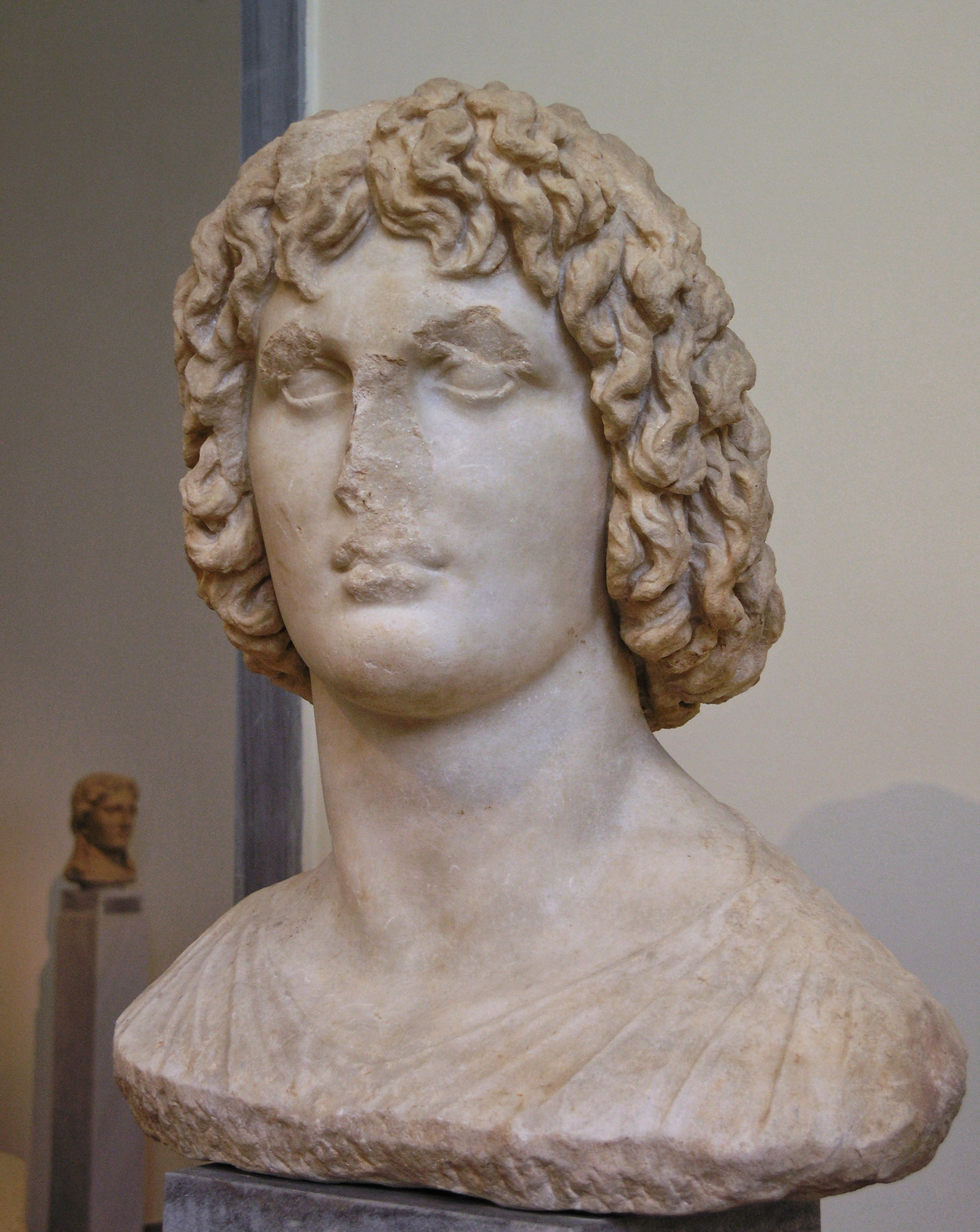 Bust of Eubouleus. Marble. Found at Eleusis. The bust depicts the mythical Eleusinian chthonic hero Eubouleus, brother of Triptolemos. Eubouleus is associated with the mystery cult at Eleusis. According to tradition, he was a swineherd. When Persephone was abducted by Plouton, he was grazing his herd near the point where the earth opened to receive the god's chariot and a few of his pigs fell into the chasm. This episode of the myths is related to the practice of throwing pigs into subterranean chasms during the festival of the Skirophoria. About 330-320 BC.